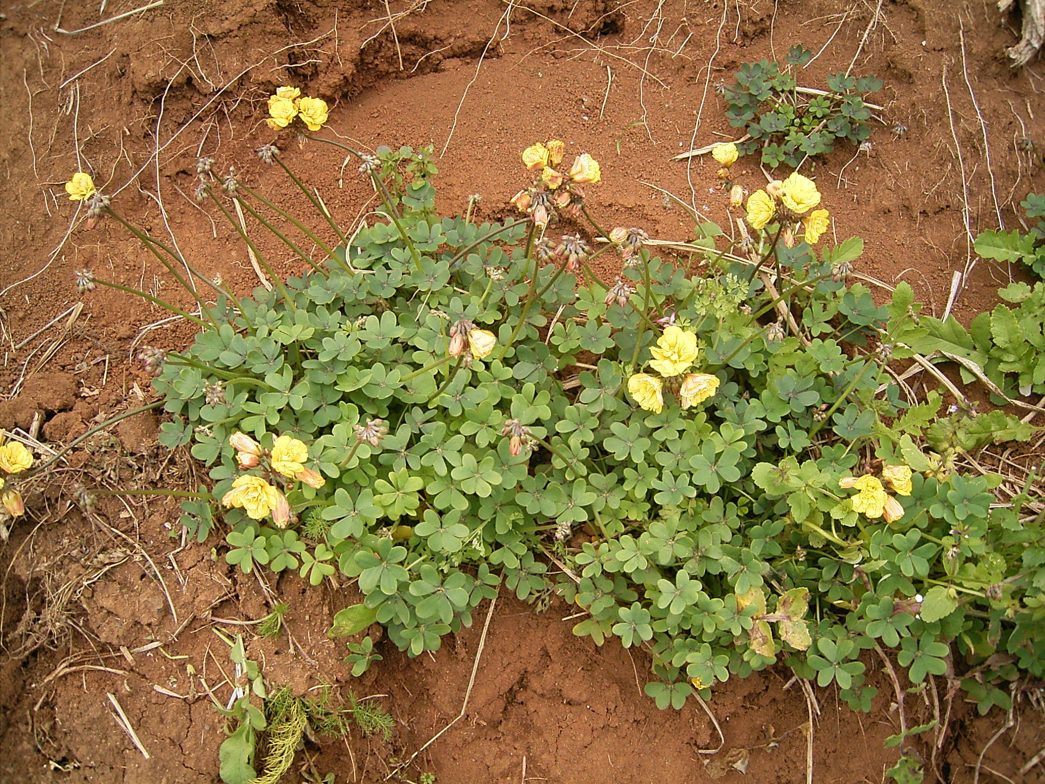 “Oxalis pes-caprae” var. pleniflora growing in San Andrés y Sauces, La Palma, Canary Islands